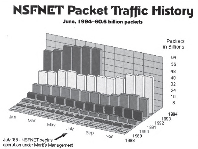 NSFNET traffic graph, January 1998 - June 1994 U.S. federal government image